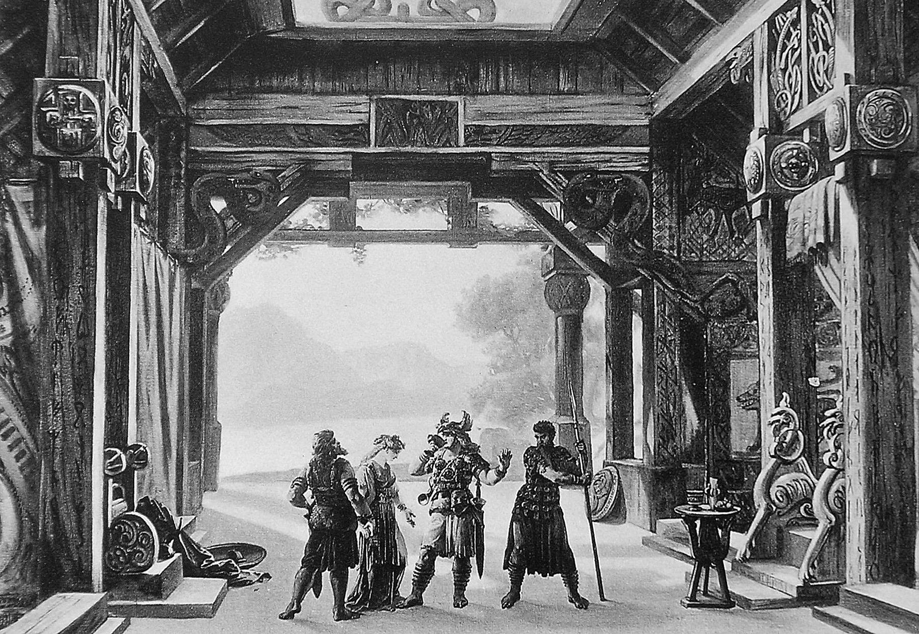 This is a monochrome photograph taken of Hoffman's 14 set designs (unknown number) for Wagner's Der Ring des Nibelungen opera in 1876. Hoffman authorized Angerer to publish and sell copies of the photographs.[1] The uploader, JosefLehmkuhl, has failed to specify from where he scanned this image.